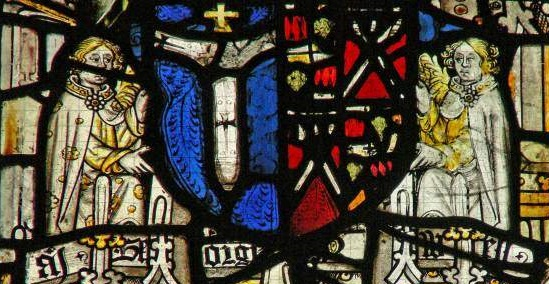 Stained glass east window, Holy Trinity Church, Goodramgate, York, showing arms of George Neville (c. 1432 – 8 June 1476), archbishop of York and Chancellor of England, was the youngest son of Richard Neville, 5th Earl of Salisbury, and Alice Montagu. He was the brother of Richard Neville, 16th Earl of Warwick, known as the "Kingmaker. The arms appear to be those of the See of Canterbury, not the See of York, impaling Neville. The same arms appear in British Library, MS Harl.3346 ff.4v-5, Collectio Sententiarum Aurearum Greek moral sayings translated into Latin by George Hermonymos, c.1475, dedicated to George Neville , although the crossed keys above the shield in that image may be a reference to the arms of York. Latin inscription below on a scroll: a(rme)s Georgii Nevell ("Arms of George Neville").